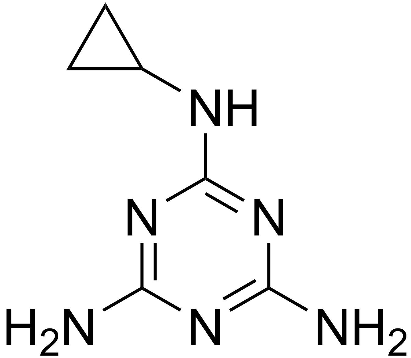 chemical structure of cyromazine